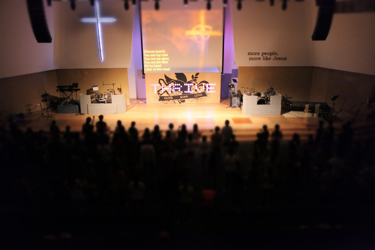 Main Chapel in Grace Assembly of God GII (Bukit Batok)